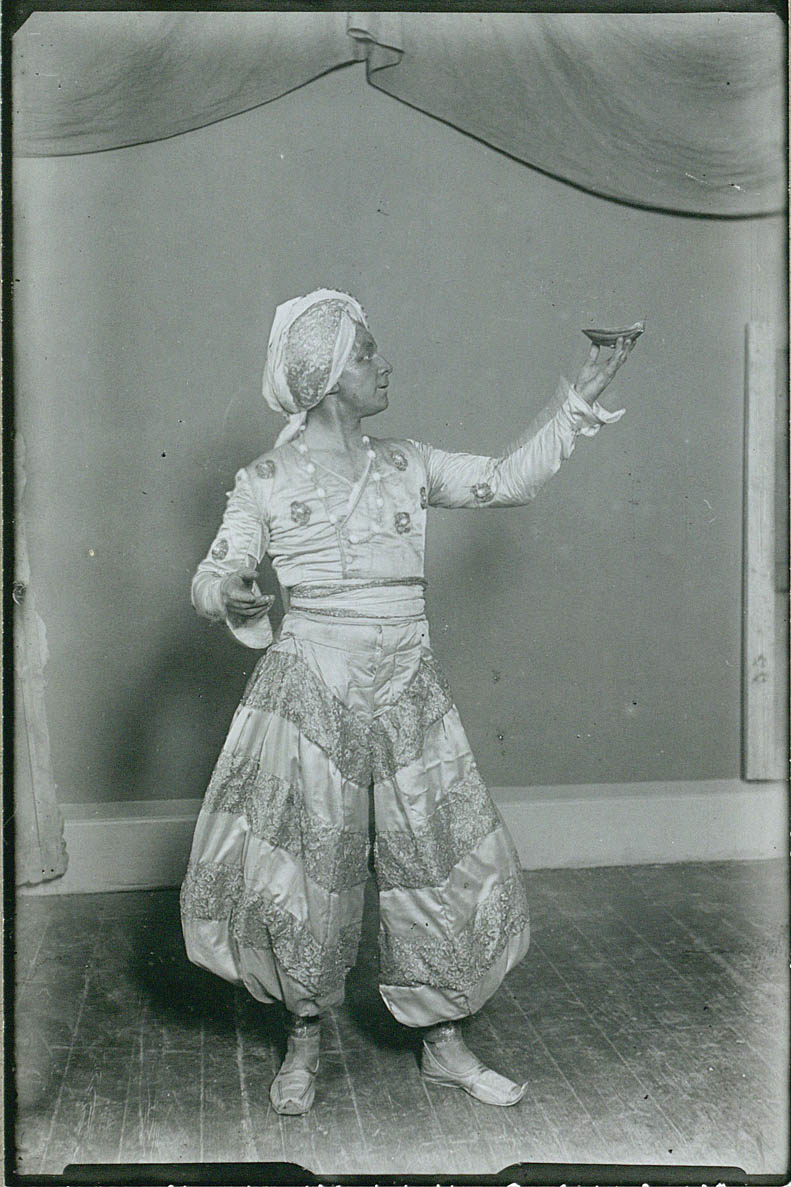 Danish actor Johannes Poulsen as Aladdin at the Royal Danish Theatre in 1919